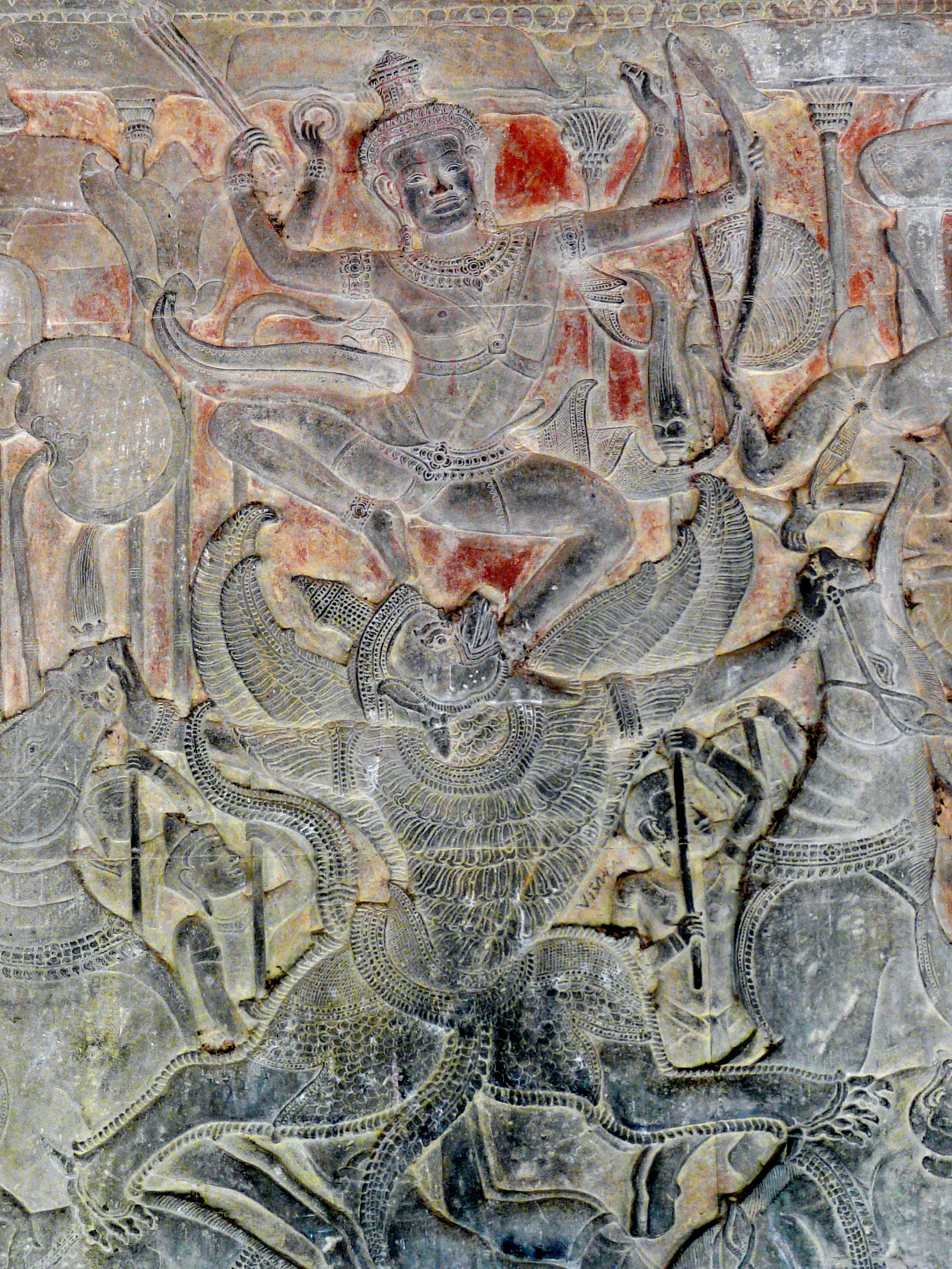 This photo is of part of a bas-relief depicting Garuda as the battle steed of Vishnu. The extensive bas-relief, which depicts a battle between devas and asuras, is found in the outer gallery (enclosure III) of Angkor Wat.